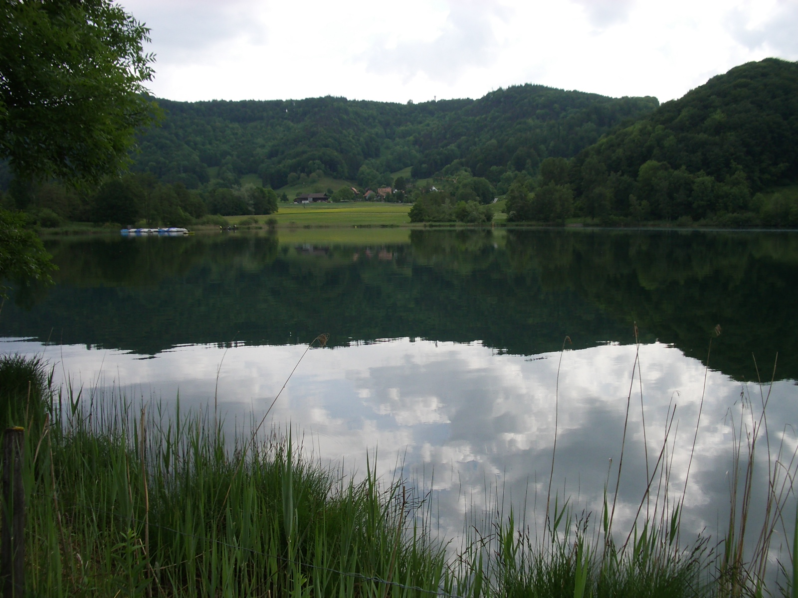 Lake Türlersee ZH, Switzerland